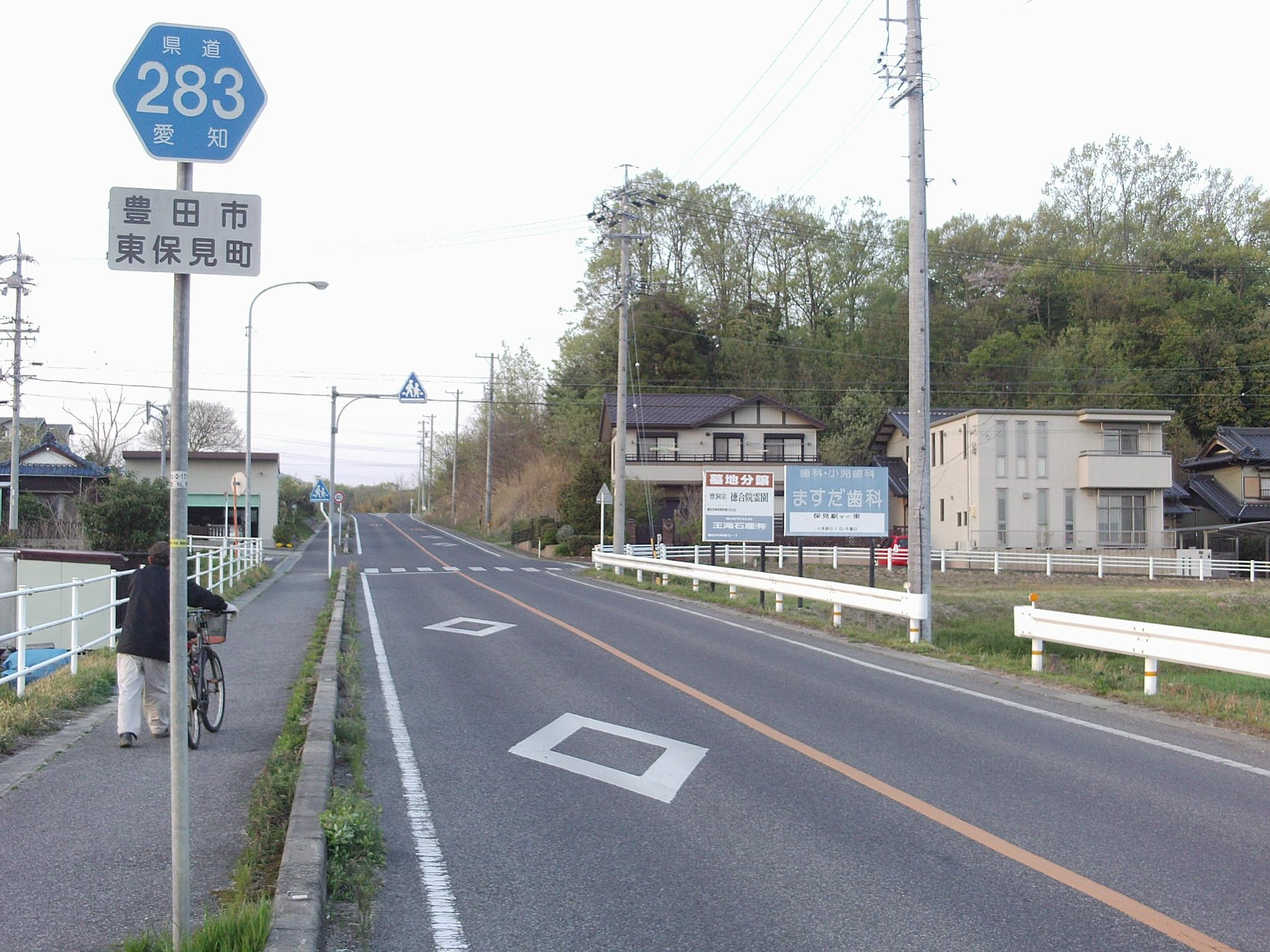 Aichi prefectural road No.283 in Higashihomicho, Toyota, Aichi.